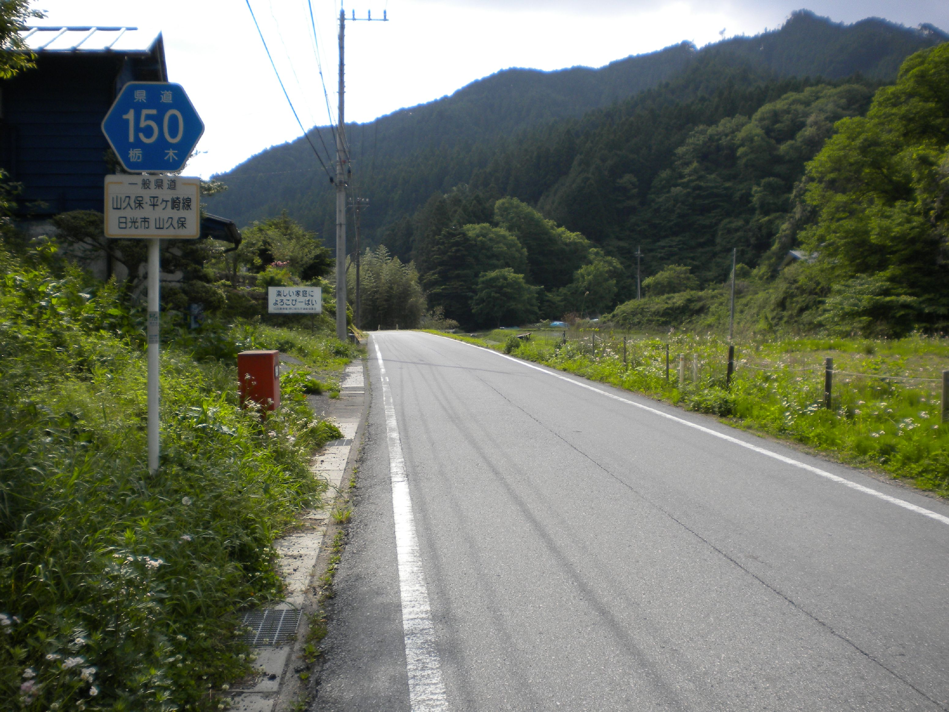 Tochigi prefectural road No.150 on Nikko city